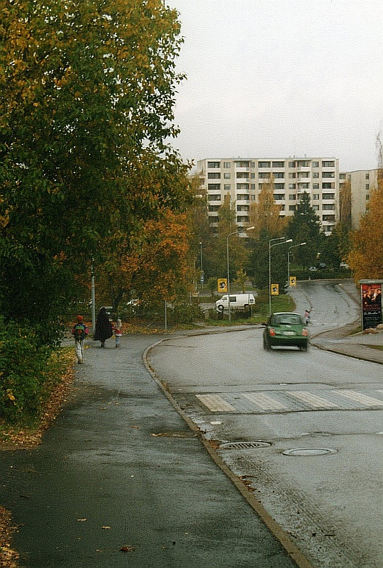 Sokinsuontie is one street of Suvela which is one part of Center of Espoo in Finland.